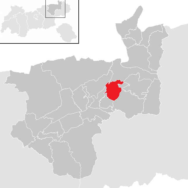 District Kufstein